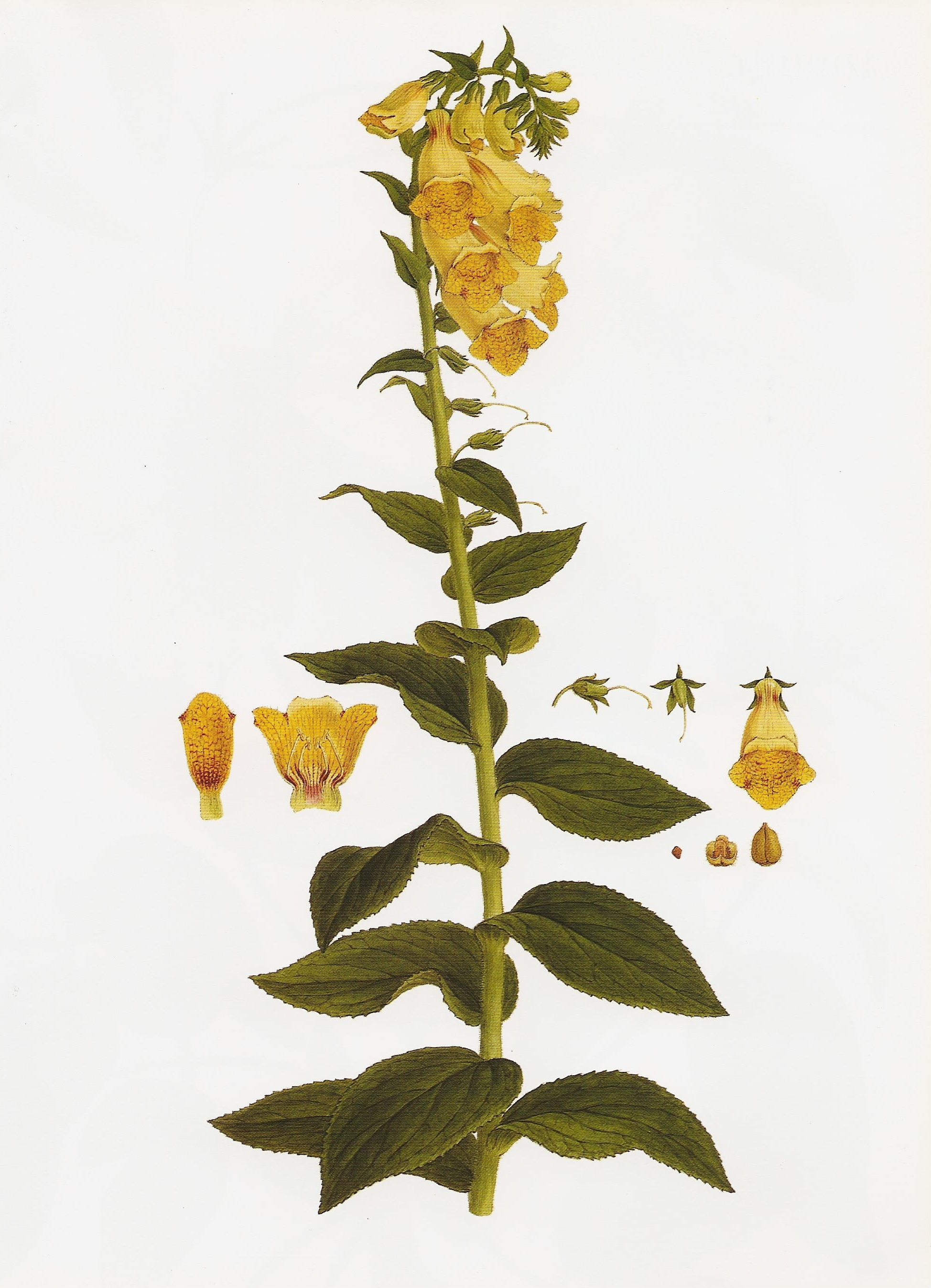 Digitalis ambigua (now grandiflora), a hand-coloured engraving after a drawing by Ferdinand Bauer (1760-1826), from John Lindley's Digitalium monographia (1821)